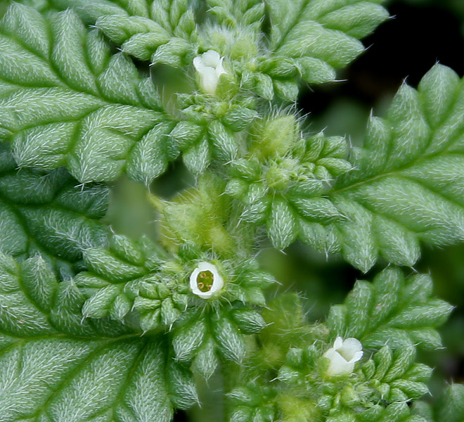 Coldenia procumbens - Seruppadai (செருப்படை) - at Pocharam lake, Andhra Pradesh, India.